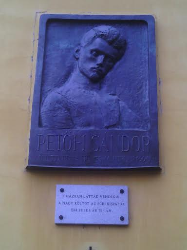 Visitation of Sándor Petőfi in Seminary of Eger.